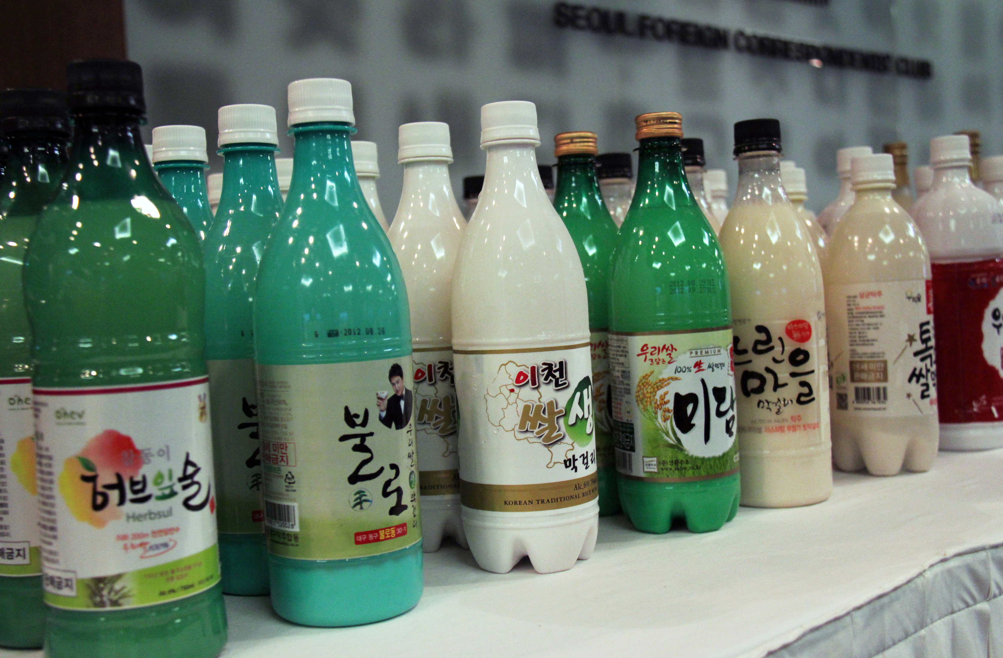 Makgeolli Sommelier A brief lecture about the characteristics of makgeolli at a seminar on August 30 for foreign correspondents stationed in Seoul. 2012.08.30. Press Center in Seoul Ministry of Culture, Sports and Tourism Korean Culture and Information Service Jeon Han 막걸리와 함께하는 문화의 밤 서울 상주 외신기자 대상 막걸리 전문가 강연, 시음 행사 및 문화 공연 프레스센터 문화체육관광부 해외문화홍보원 전한 Article "The unique charms of makgeolli studied by foreigners"